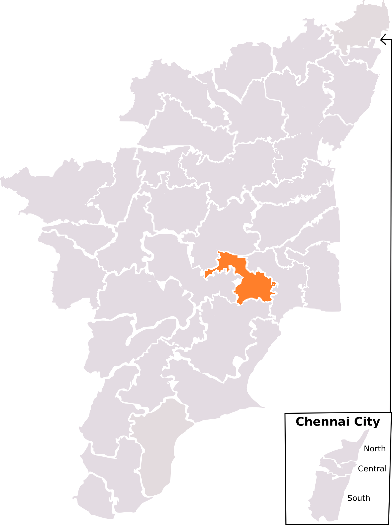 Lok Sabha Election map for Tamil Nadu. Map is based on ECI drawn map. Results are based on ECI website.